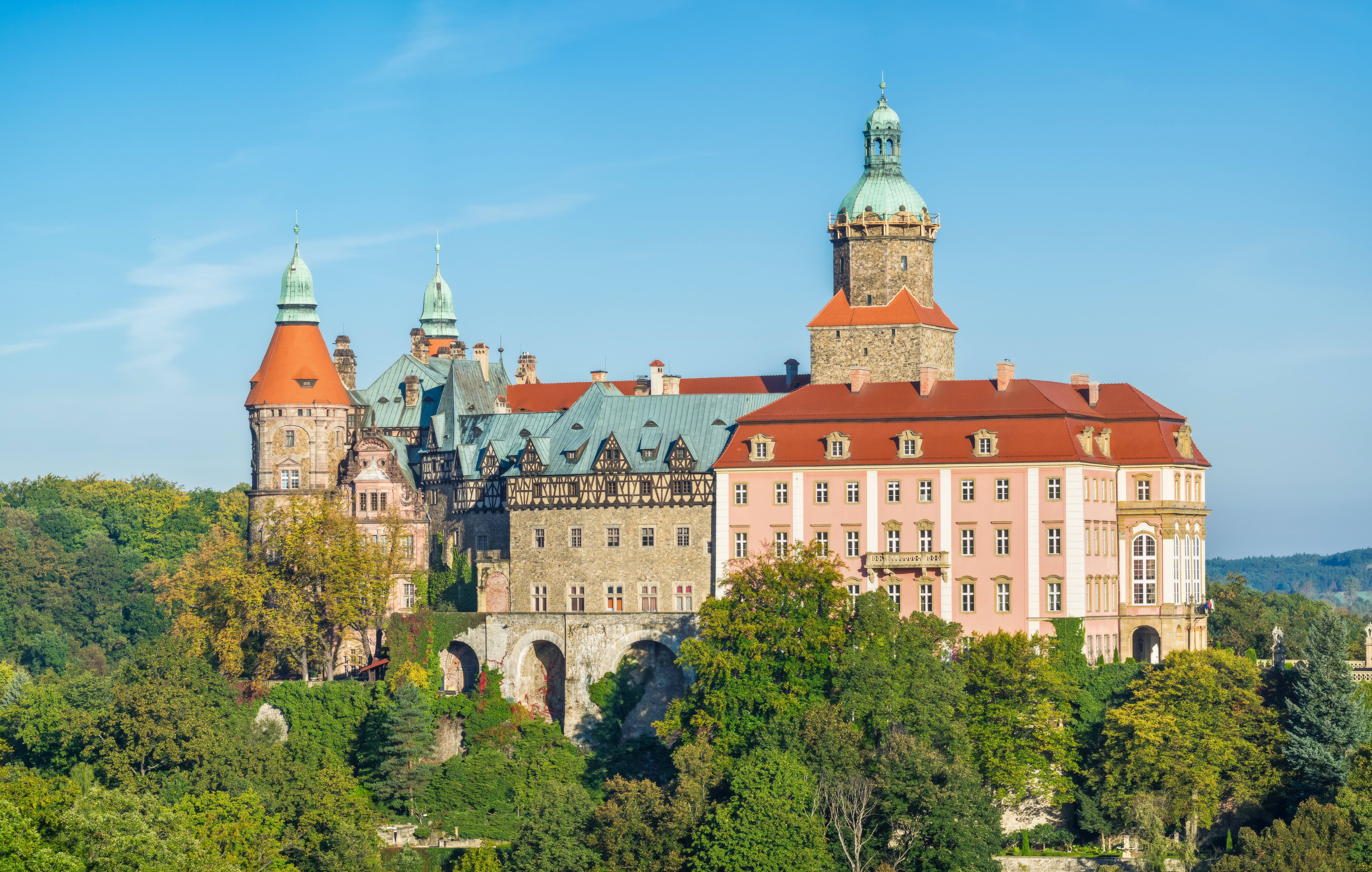 Książ is the largest castle in the Silesia region, located in northern Wałbrzych in Lower Silesian Voivodeship, Poland.